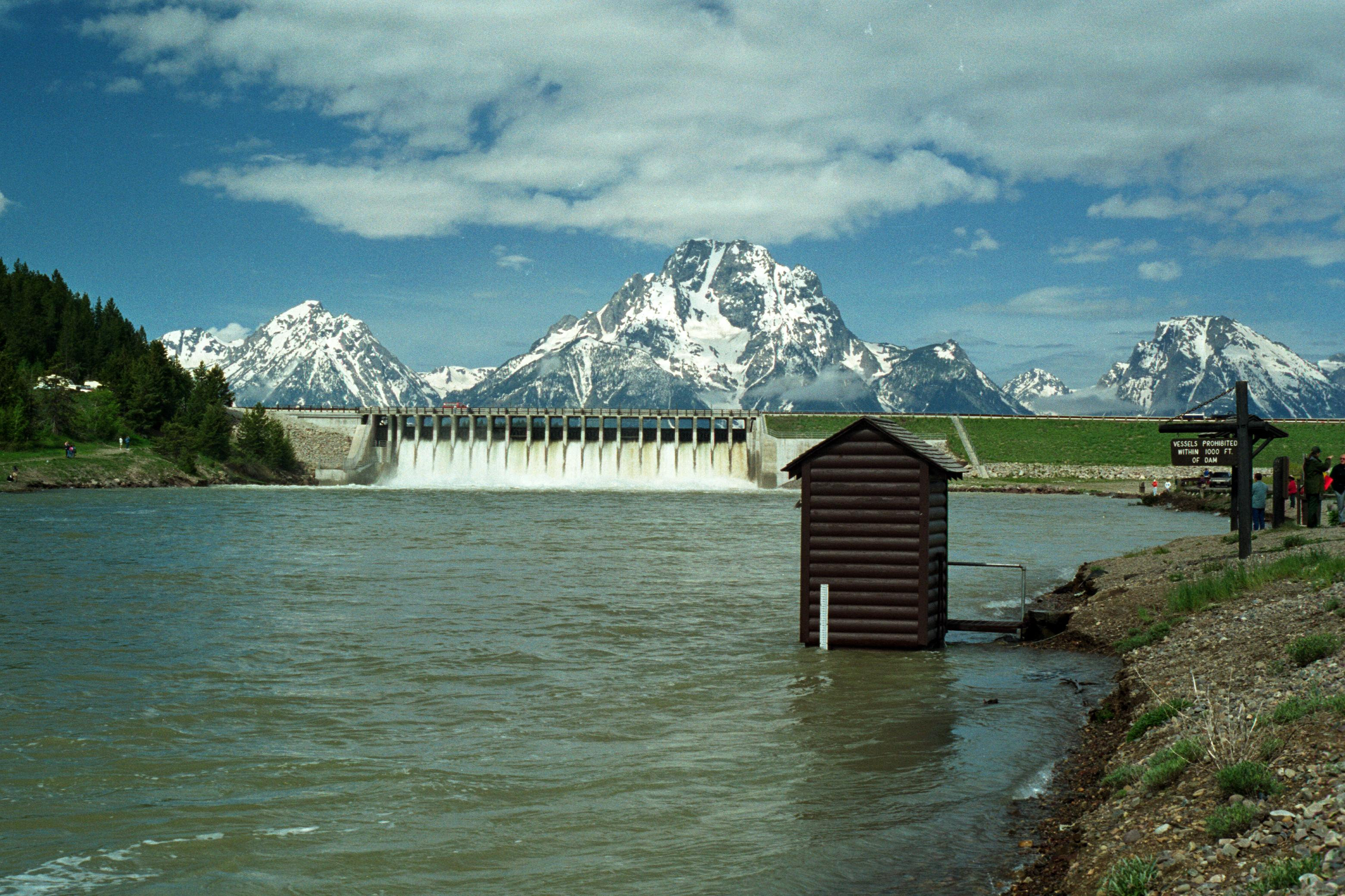 Jackson Lake Dam in June 1997 as seen looking upstream/west from the north shore of the Snake River near USGS Station no. 13011000.